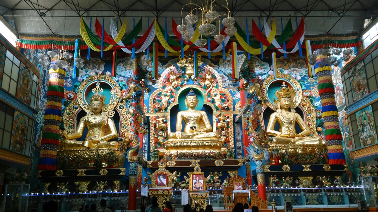 Three stone built Jaina Temples standing in a Courtyard with an inscription